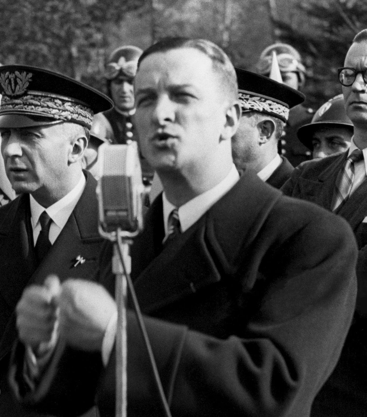 Speech By Bousquet, Secretary General Of The Police Of Vichy Regime, In Front Of The Reserve Mobile Groups (Gmr), On March 23Rd 1943.